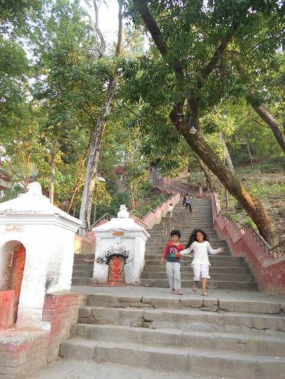 सुर्यविनायक मन्दिर